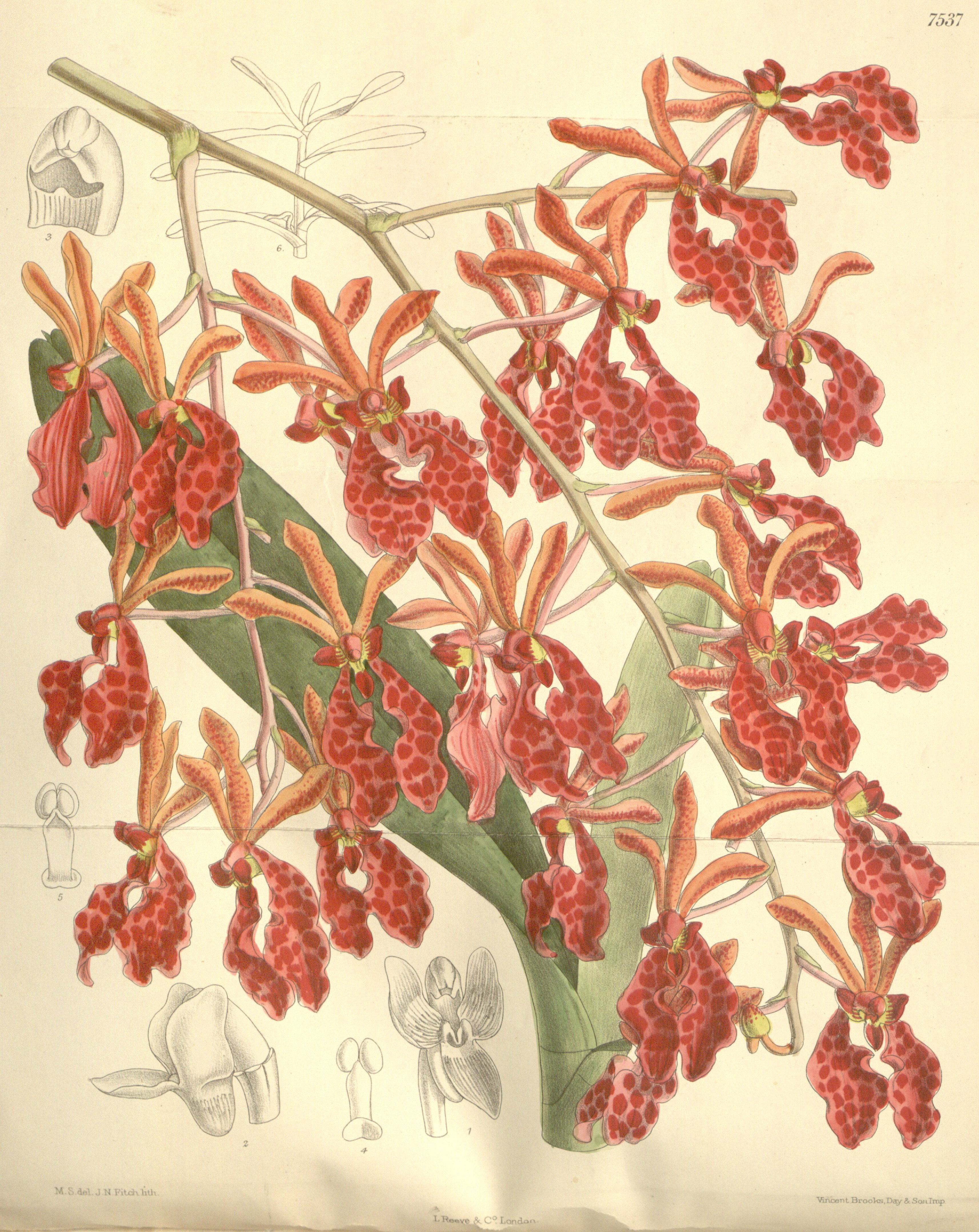 Illustration of Renanthera storiei